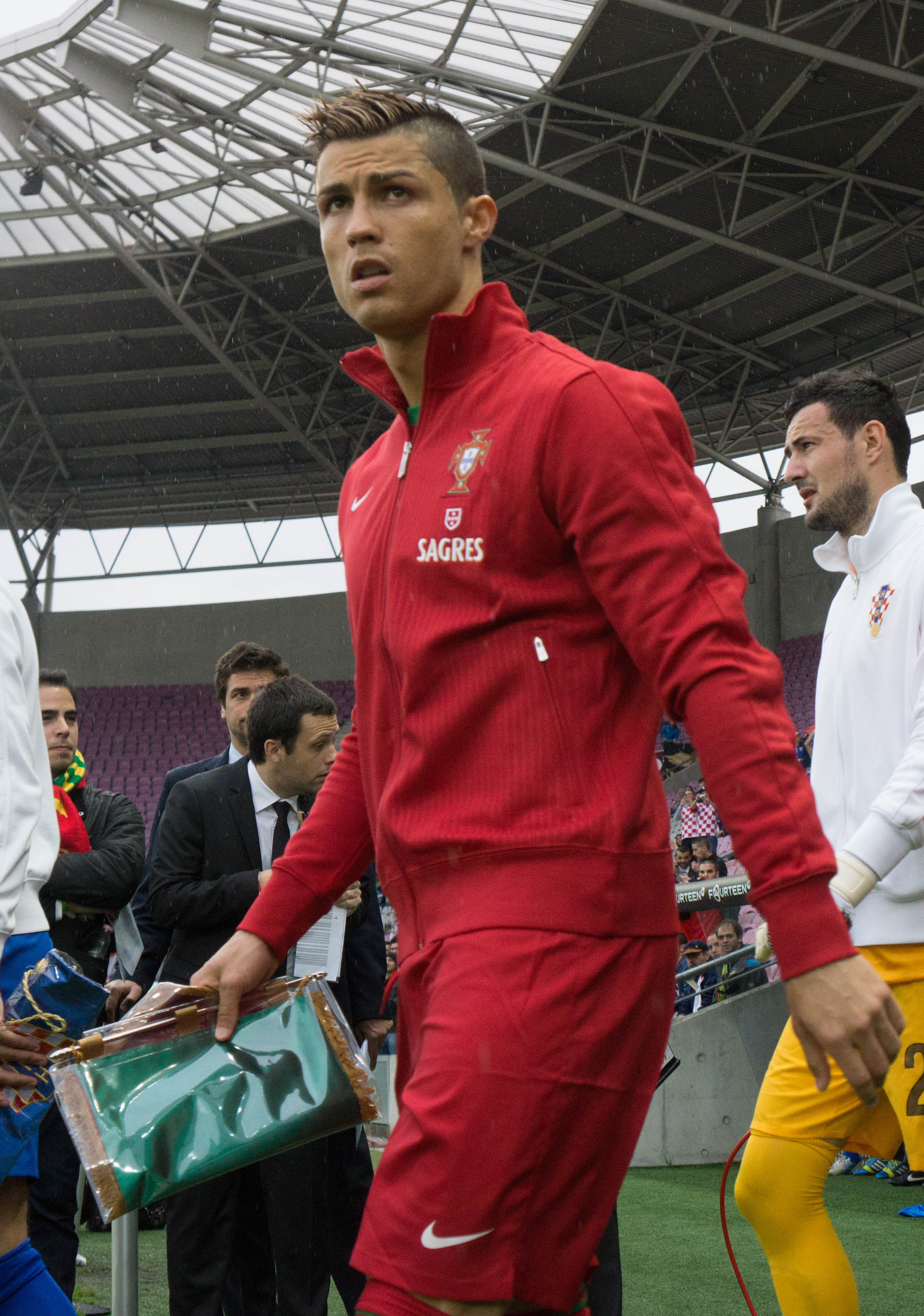 Croatia vs. Portugal, 10th June 2013